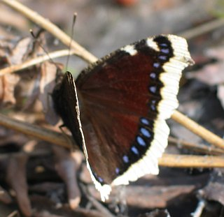 Camberwell beauty